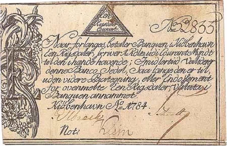 One Rigsdaler banknote issued by Kurantbanken in Kopenhagen in 1794.